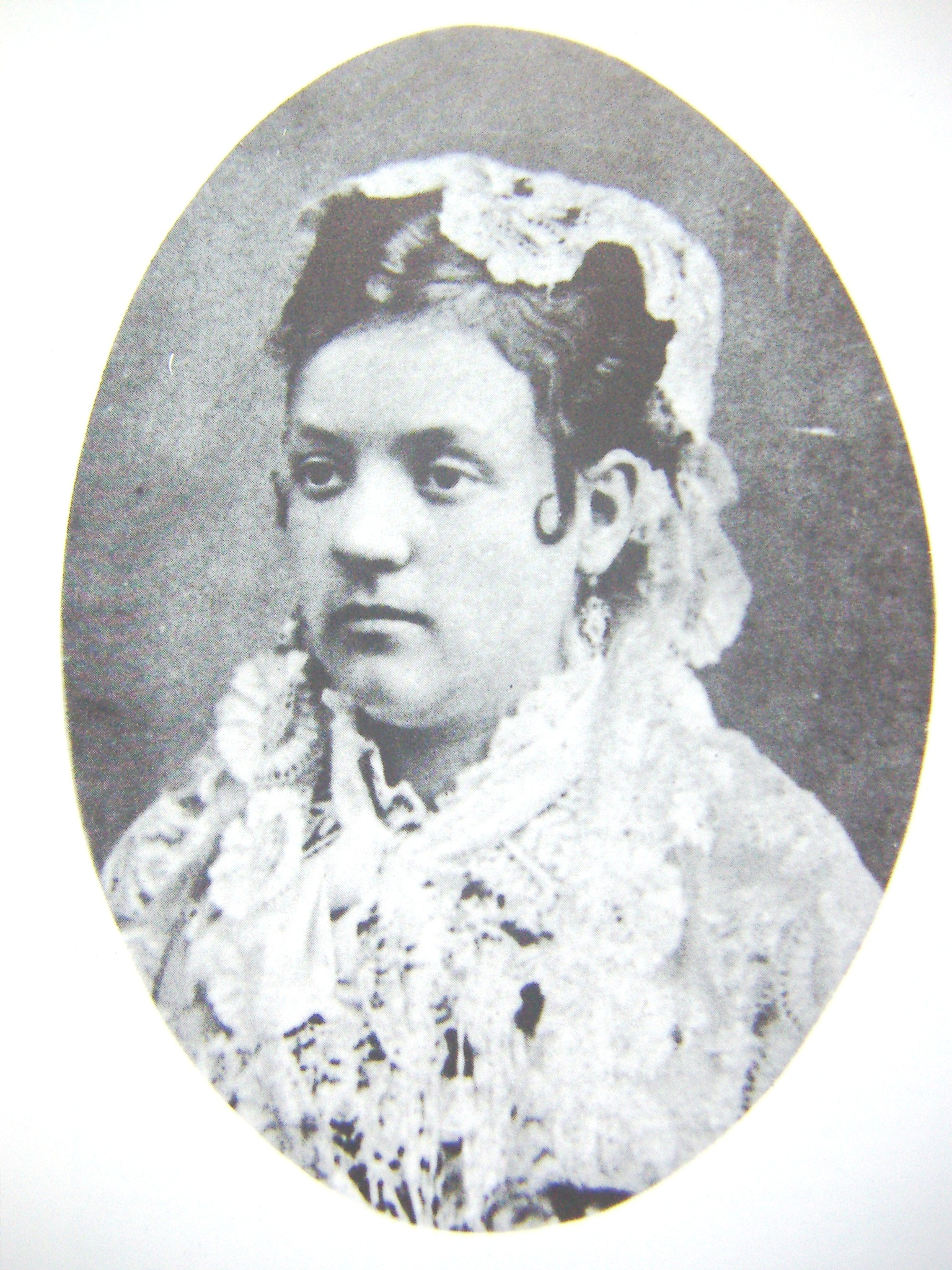 Photo by Rosario de Acuña, spanish wraiter, suffragist, journalist and feminist from the first quarter of the 20th century.